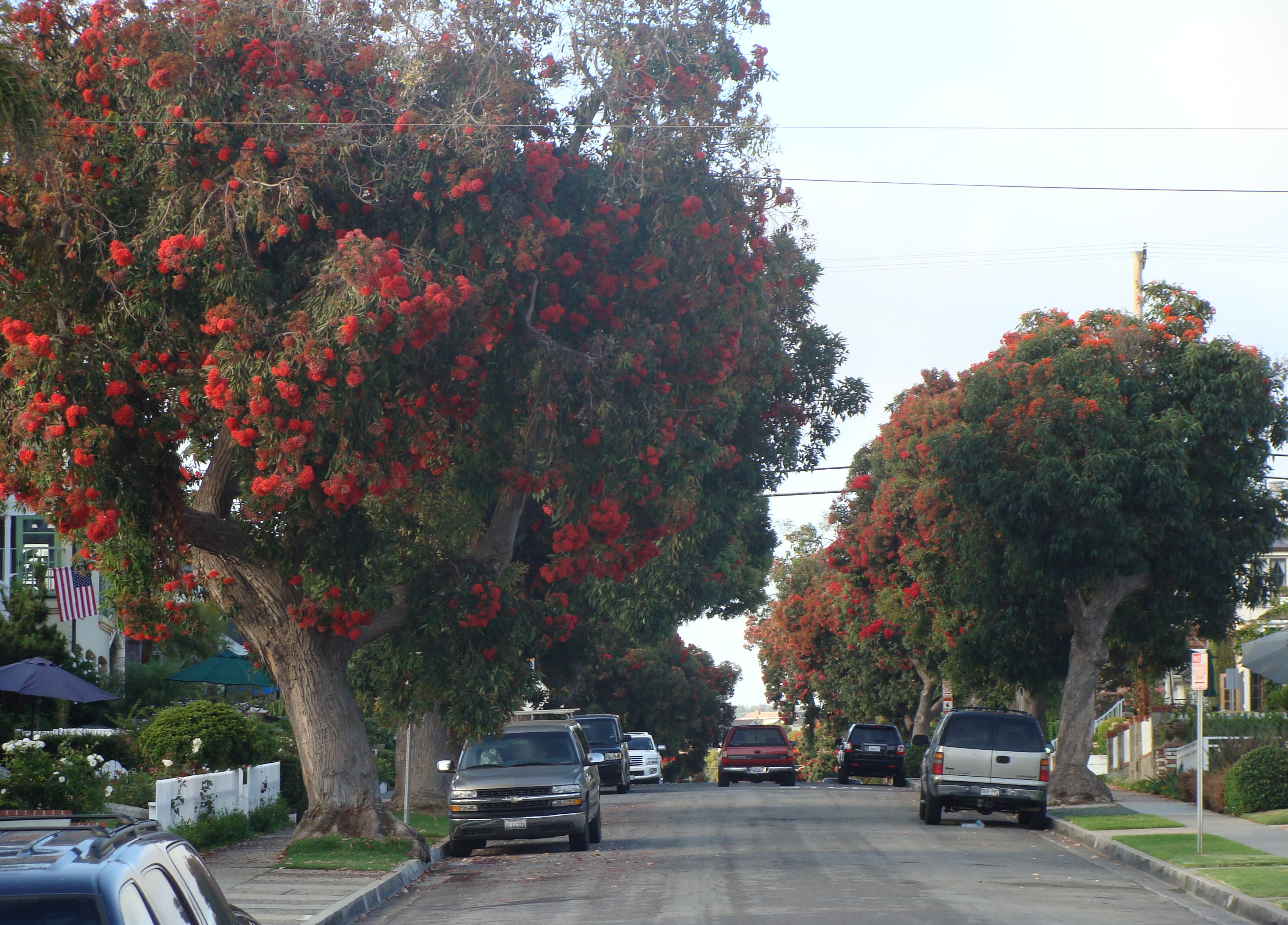 Newport Beach, CA. View is looking away from Ocean Blvd toward Pacific Coast Hwy (not seen in photo). Eucalyptus street trees flowering - Corymbia ficifolia.